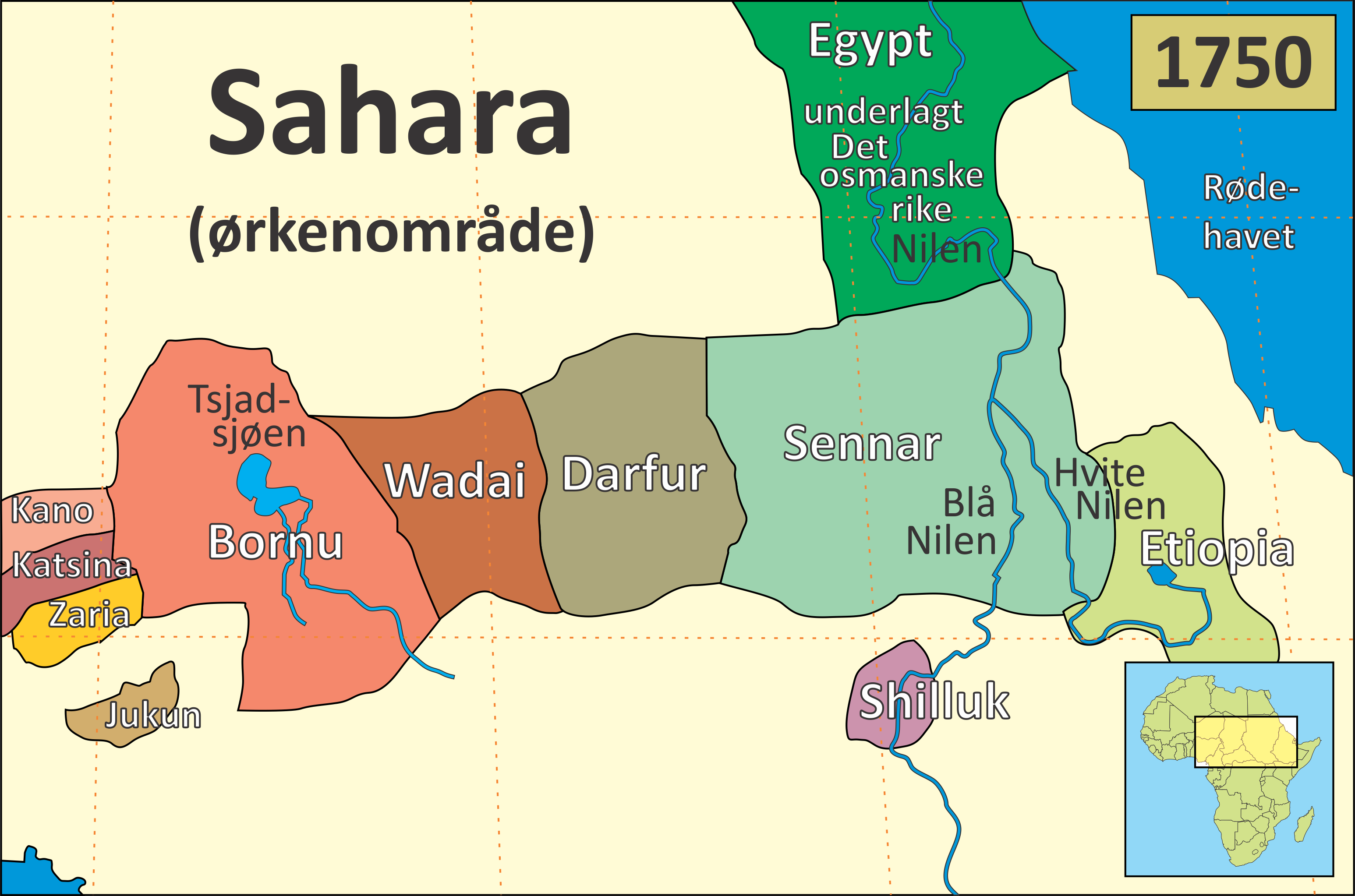 Map of Central-East Africa in AD 1750. - Norwegian text Redrawing of fil CentralEastAfrica1750.png